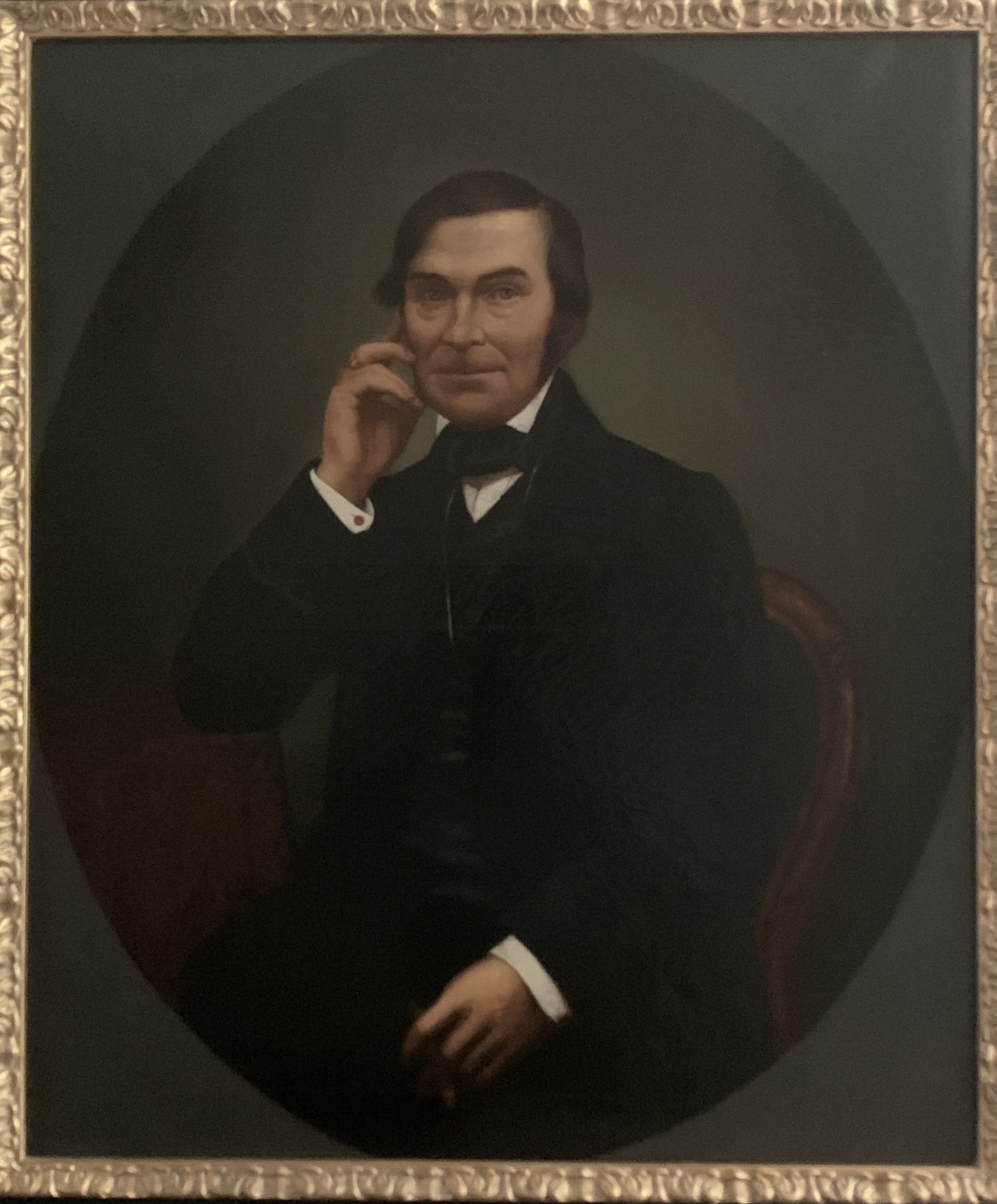 Painting of an unknown Artist, approx. 1840